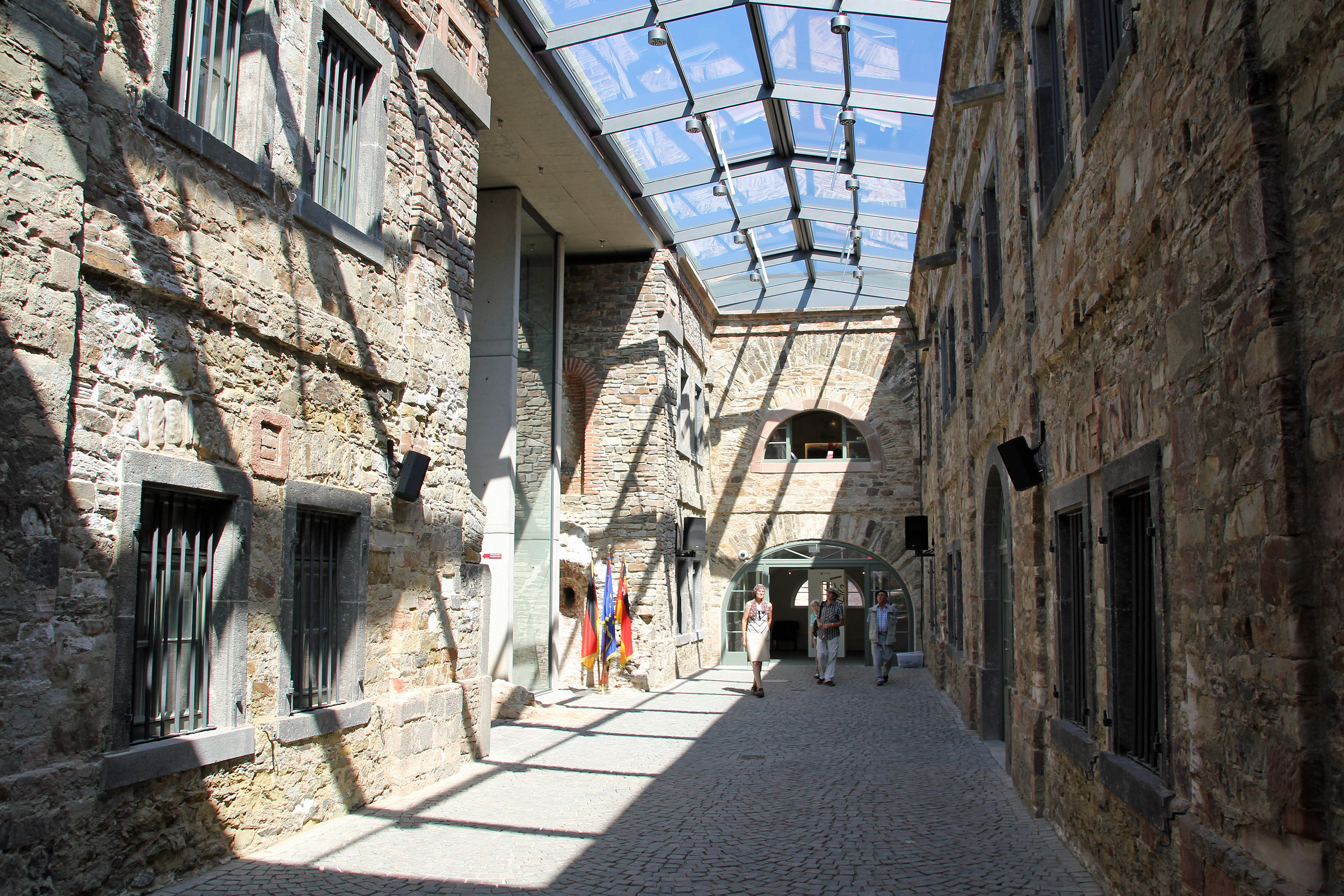 Federal Horticultural Show 2011 in Koblenz - Ehrenbreitstein Fortress